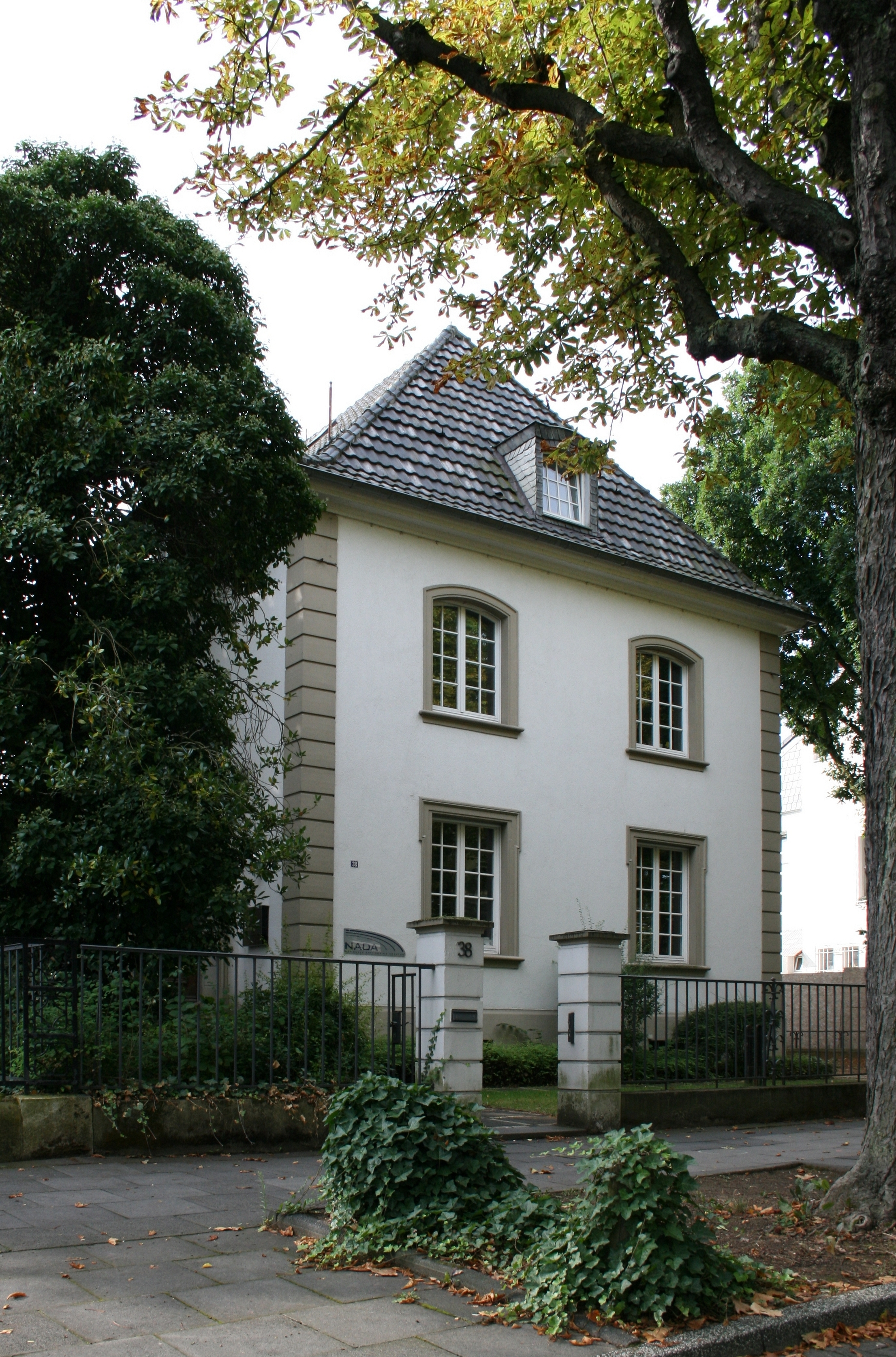 Headquarter NADA (national Anti-Doping Agency against Doping) in Bonn, Germany, Heussallee 38